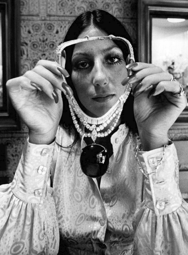 Photo of Cher from The Sonny and Cher Comedy Hour.